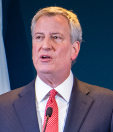 Secretary Carson NYCHA Agreement Signing